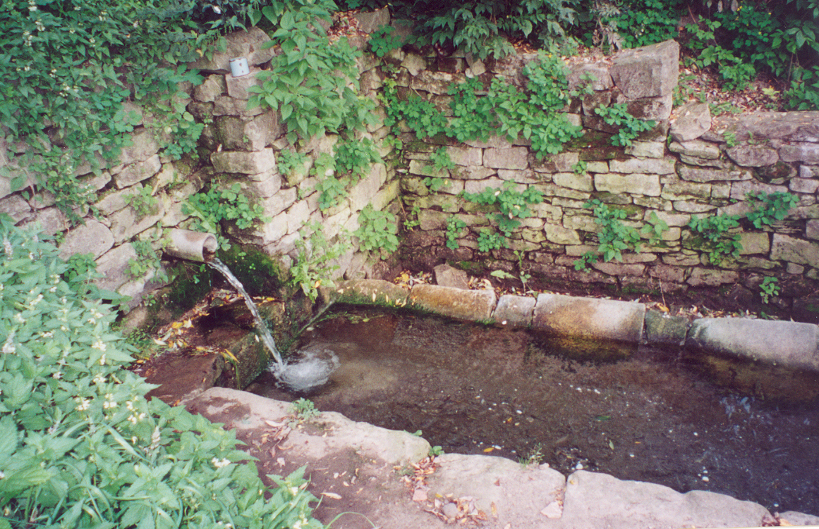 A fountain or spring in the village of Dzyhivka (Дзи́гівка), Ukraine. This type of structure is normally called a dzherelo (джерело) in Ukrainian, though here it is called a shipit (шипіт - Ukrainian) or shipot (шипот - Russian), which would normally refer to a waterfall. This type of fountain is a clean water source in many villages in Ukraine, serving as an alternative to a well. It consists of a large metal pipe drilled into a hill horizontally. Clean, cold water runs constantly out of the pipe and creates a pool of water at the base, surrounded by stones, and runs out creating a small river.